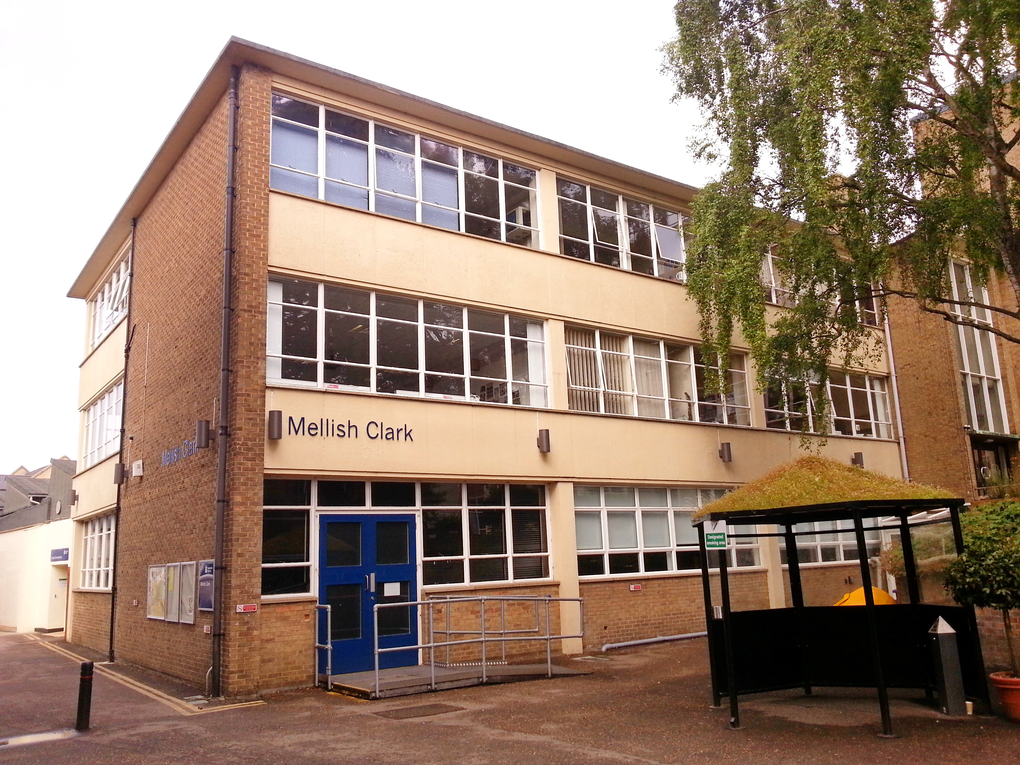 The Department of English, Communication, Film and Media of Anglia Ruskin University takes place in Mellish Clarke Building.